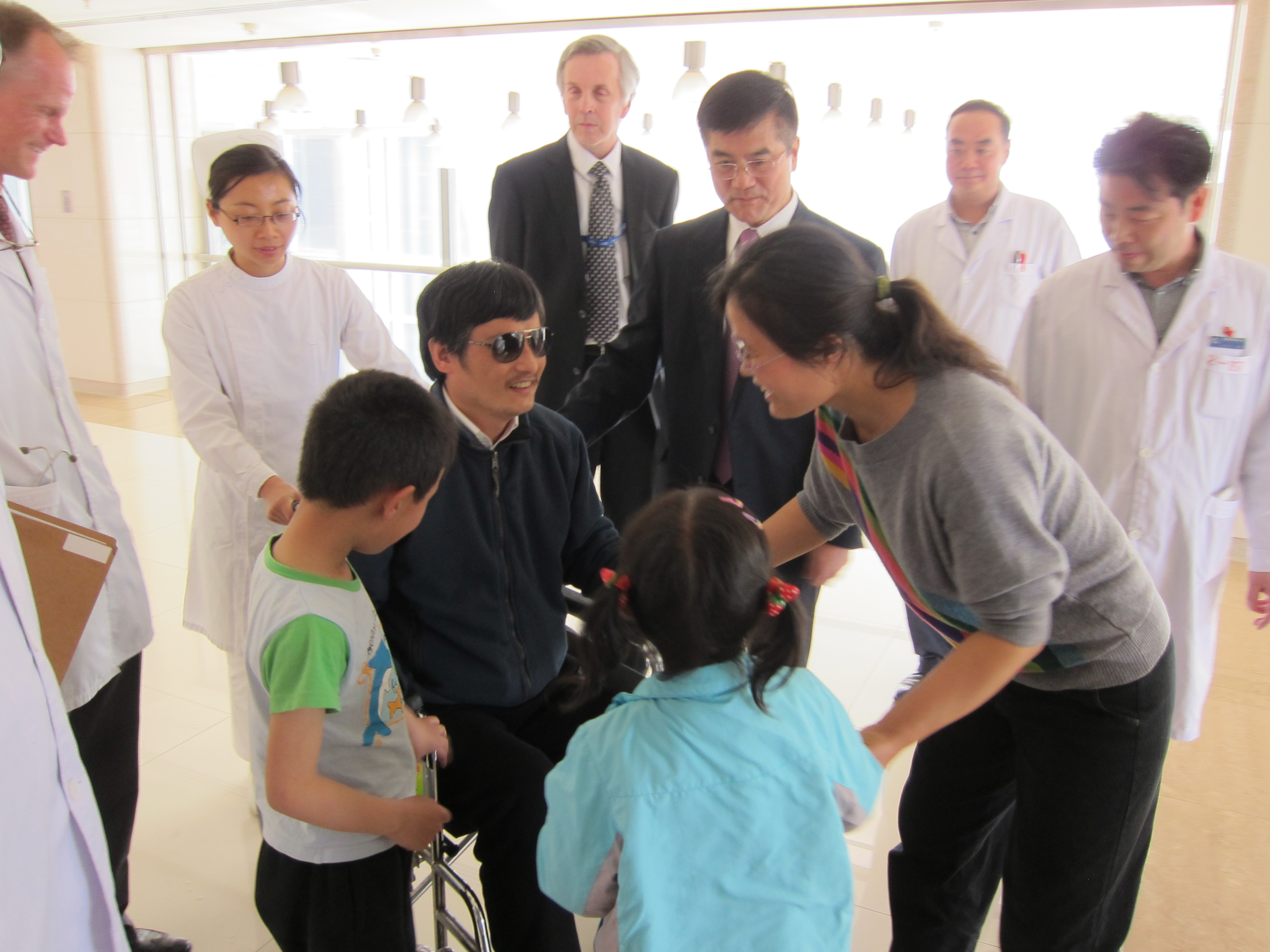 Chen Guangcheng with his family at a hospital in Beijing, China, on May 1, 2012. U.S. Ambassador to China Gary Locke, James Brown, and Regional Medical Officer Wayne Quillin are also pictured.